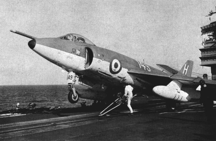 A Royal Navy Supermarine Scimitar F.1 assigned to 803 Naval Air Squadron aboard HMS Hermes (R12) is launched from the U.S. Navy aircraft carrier USS Forrestal (CVA-59) in the Mediterranean Sea, 1962.